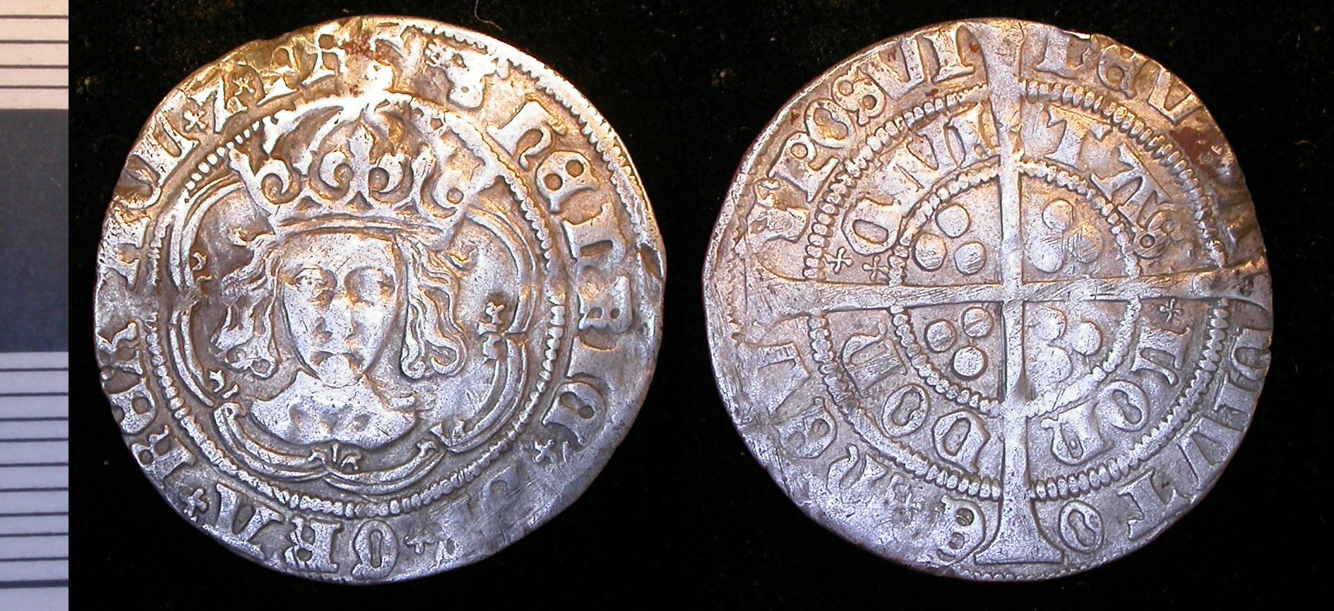 Late Medieval silver groat of Henry VII (Seaby 2199).